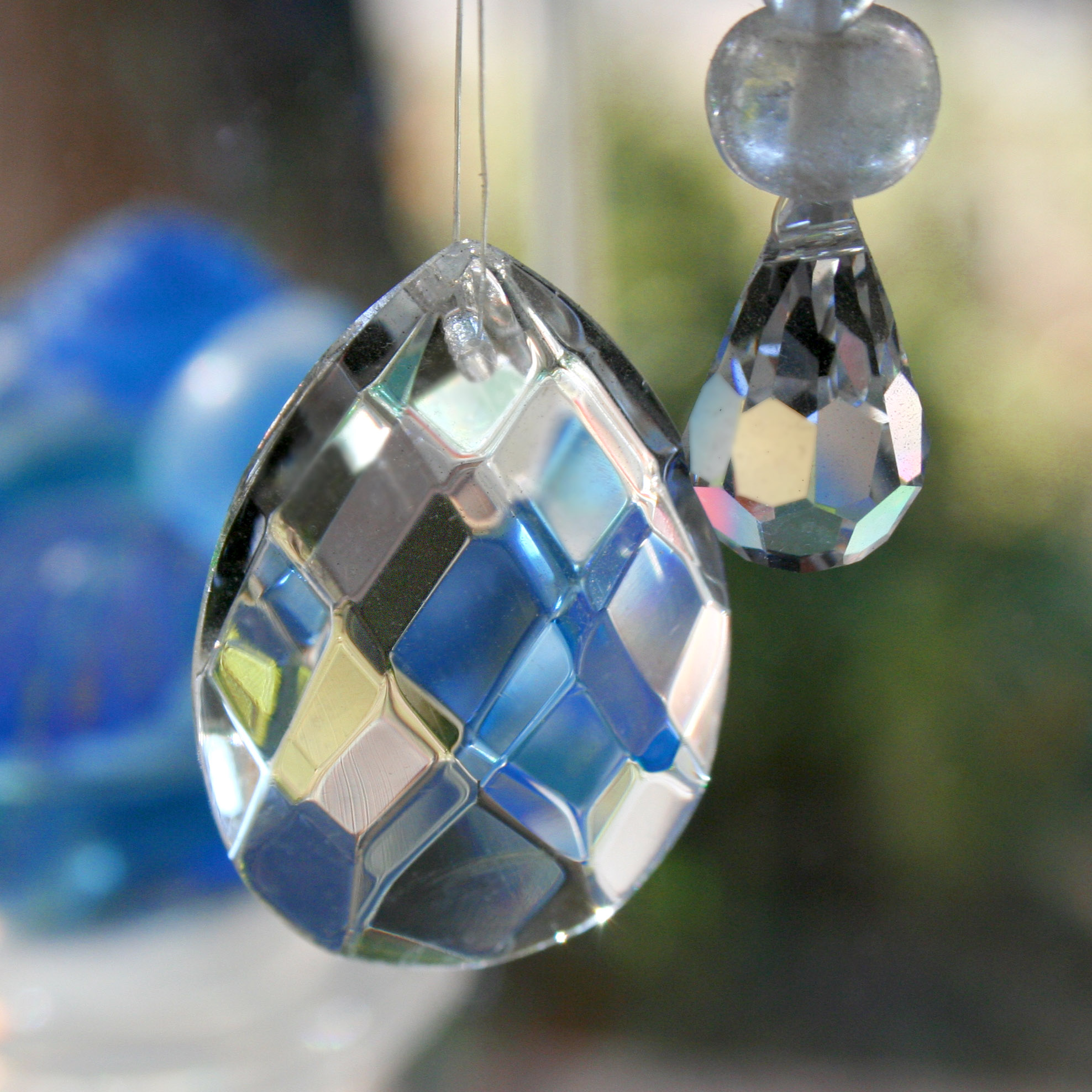 Feng Shui crystal